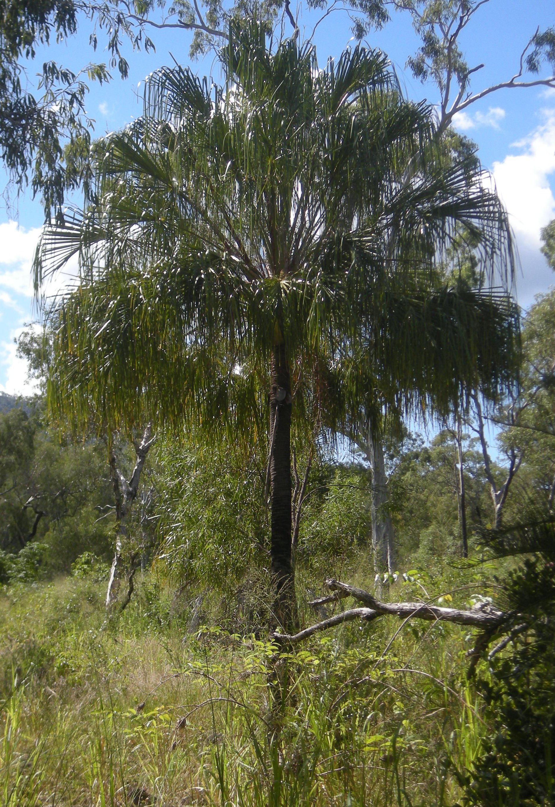 Livistona decipiens palm tree